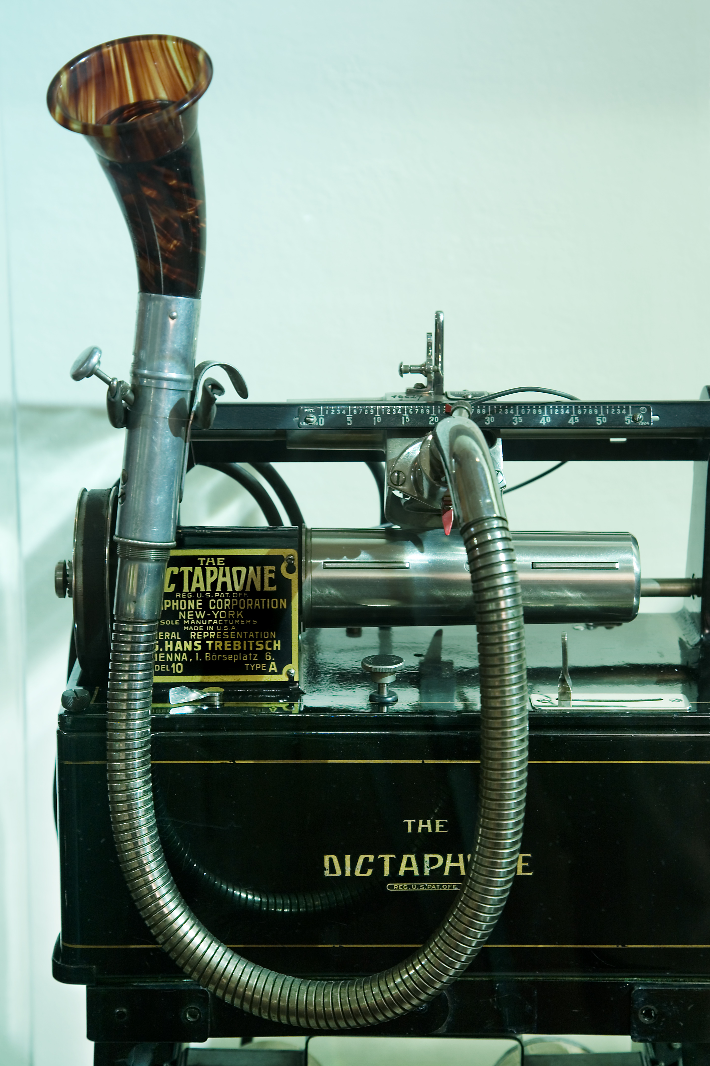 Dictaphone. Dictaphone Corporation, New York around 1920. Technisches Museum, Vienna, Austria.